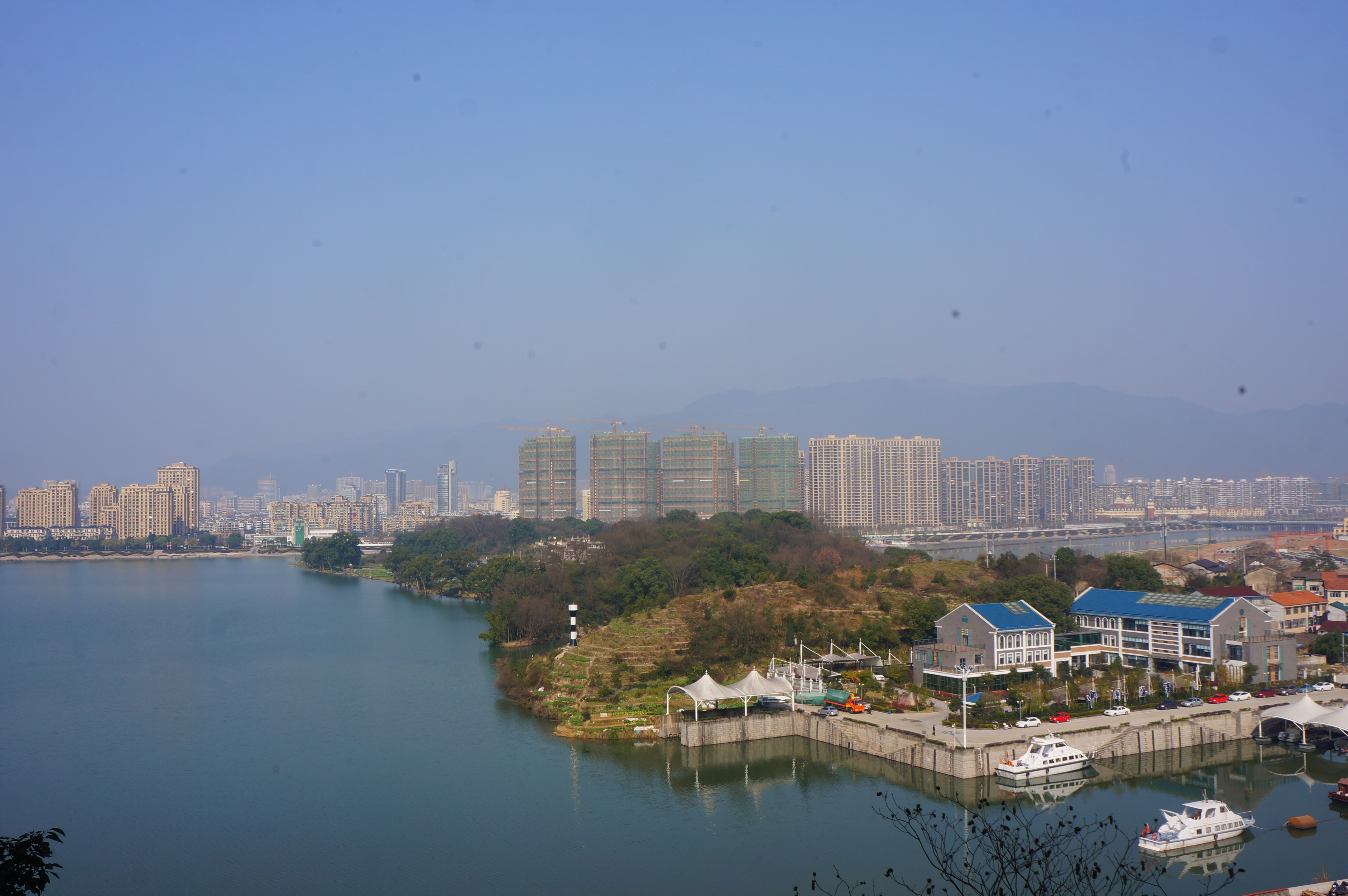 201701 Lishui Overview. Taken at Xiahe Tower